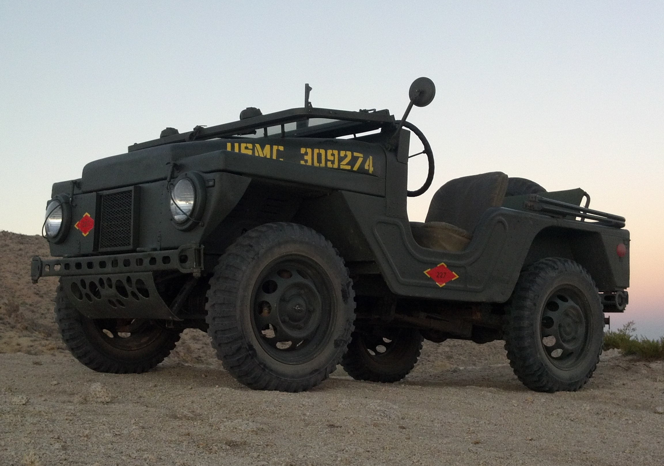 1962 M422A1 Mighty Mite 3047